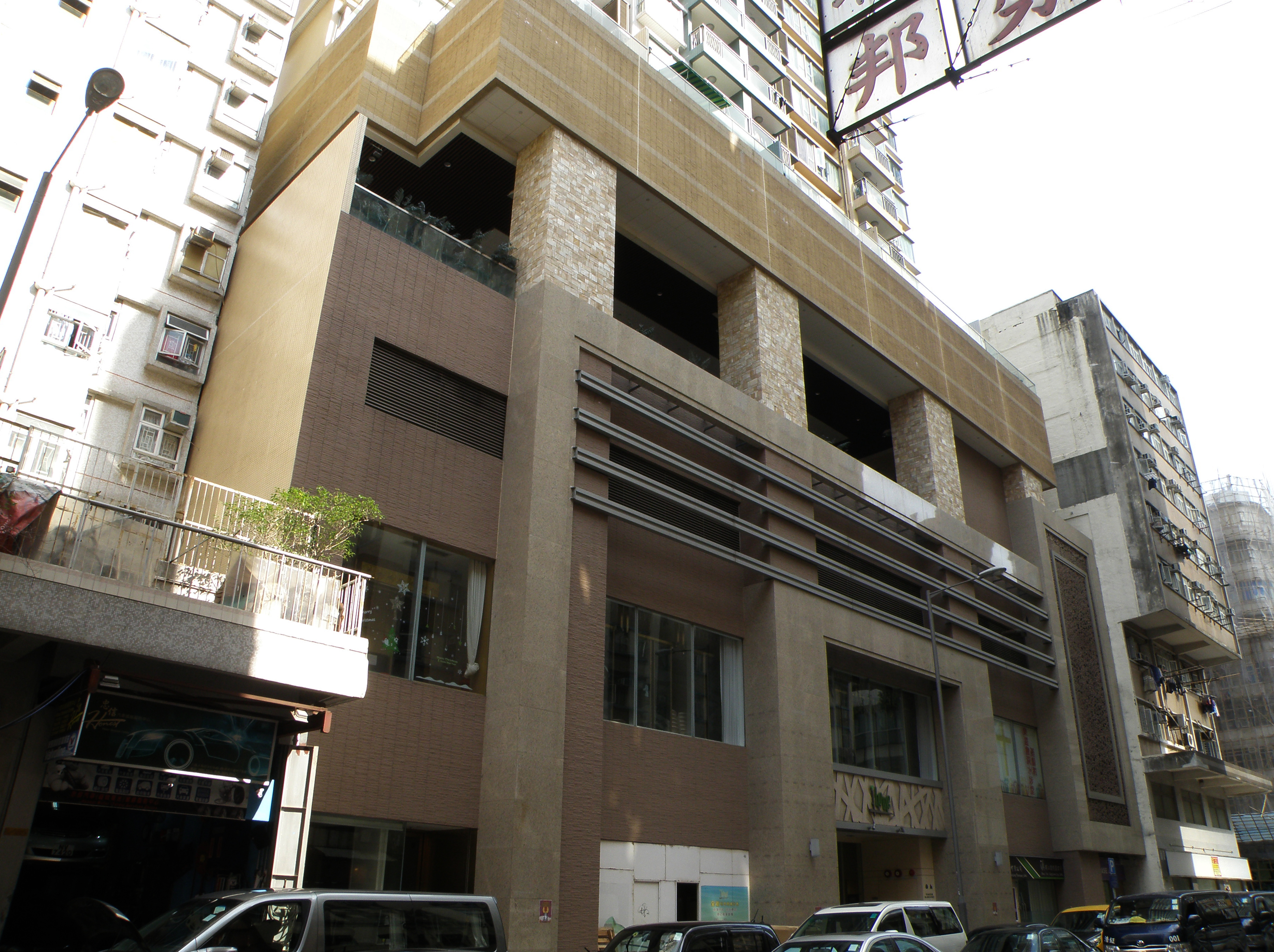 I-home in Tai Kok Tsui, Hong Kong.